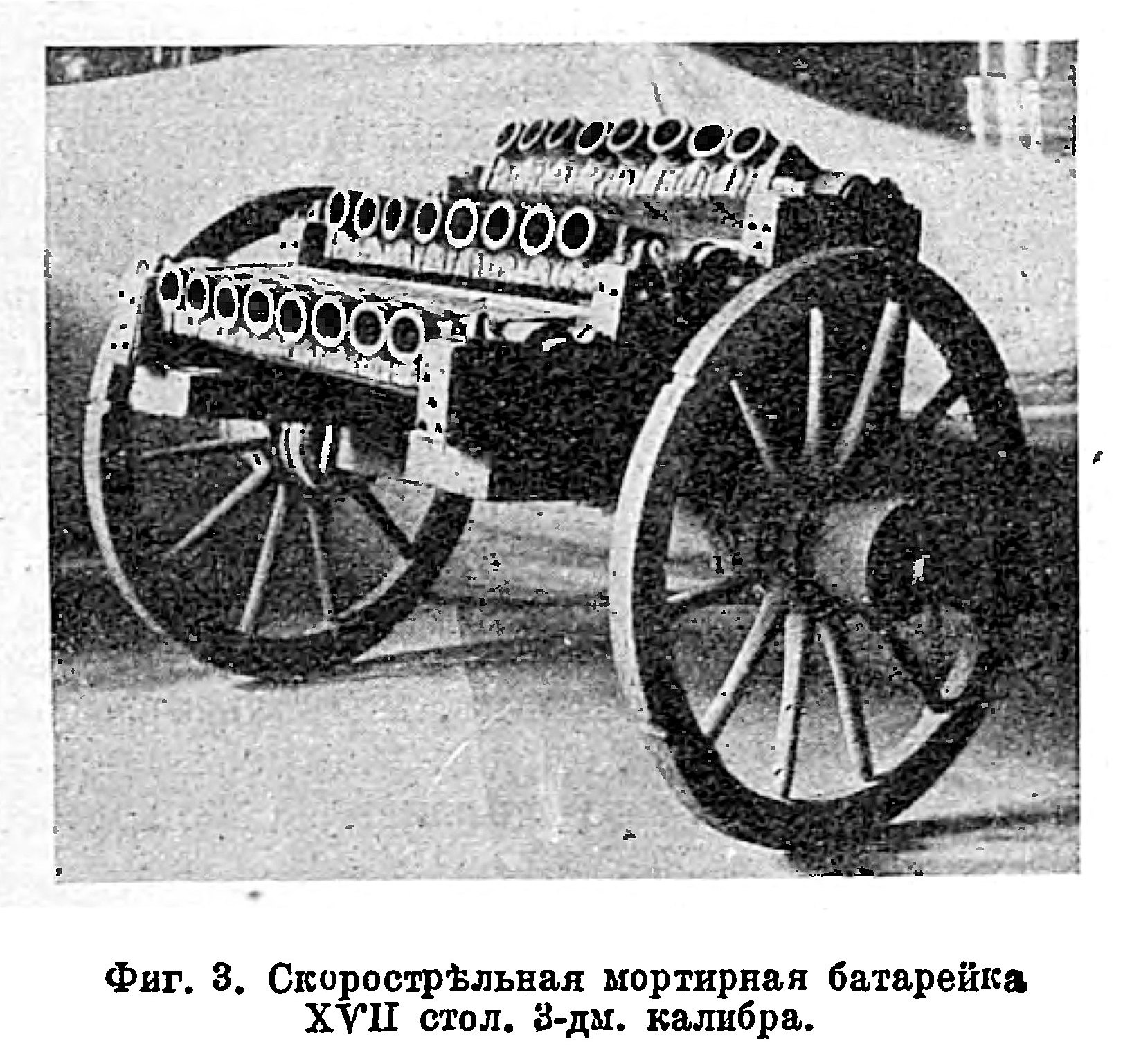 A volley gun is a gun with several barrels for firing a number of shots, either simultaneously or in succession. They differ from modern machine guns in that they lack automatic loading and automatic fire and are limited by the number of barrels bundled together.